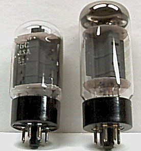 by User:EricBarbour Pair of different 6L6GC tubes - (l) General Electric version from 1960s (r) currently made version by Svetlana Electron Devices, Russia Image:6L6tubespair.jpg